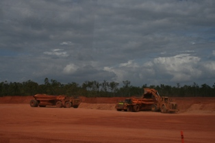 Bauxite mining in Weipa, Australia.